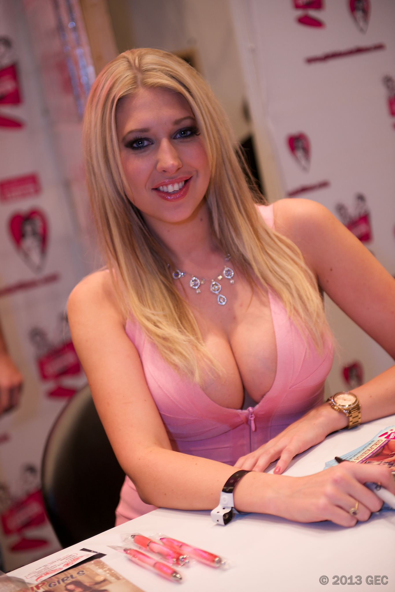 Lexi Lowe - 2013 AVN Adult Entertainment Expo AEE at Hard Rock Hotel - Las Vegas. 2013 © GEC.